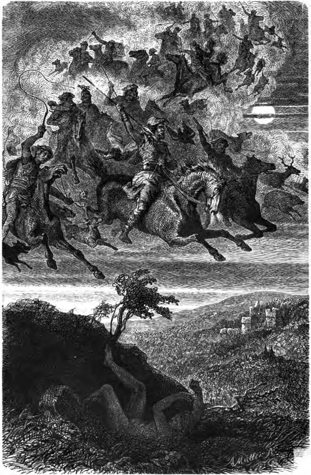 Captioned as "Wodan's wilde Jagd". Wodan leads an immense host of people and animals through the night sky; his wild hunt. A female figure struggles on the ground below.